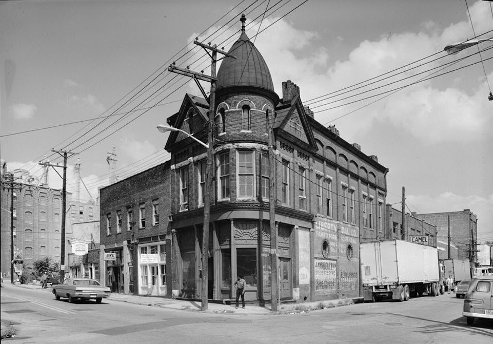 Sullivan's Saloon, at the corner of Central (left) and Jackson (right), in Knoxville, Tennessee, USA, photographed in 1976.